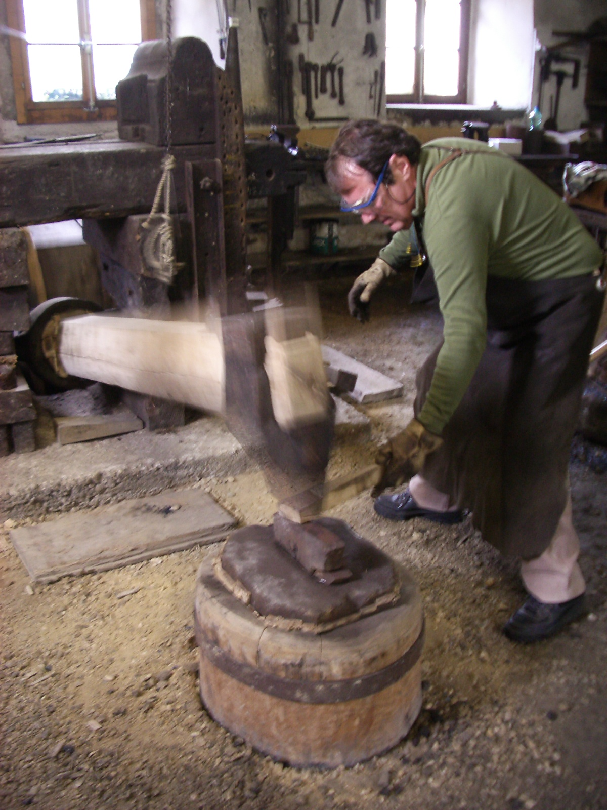 Hammer mill, Corcelles BE, Switzerland